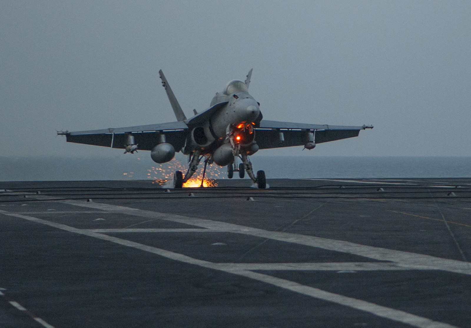 A U.S. Navy McDonnell Douglas F/A-18C Hornet from Strike Fighter Squadron (VFA) 113 "Stingers" makes an arrested recovery on the flight deck of the aircraft carrier USS Carl Vinson (CVN-70) as the ship conducts flight operations in the U.S. 5th Fleet area of responsibility supporting "Operation Inherent Resolve". VFA-113 was assigned to Carrier Air Wing 17 (CVW-17) aboard the Carl Vinson for a deployment to the Western Pacific and the Indian Ocean starting 22 August 2014.